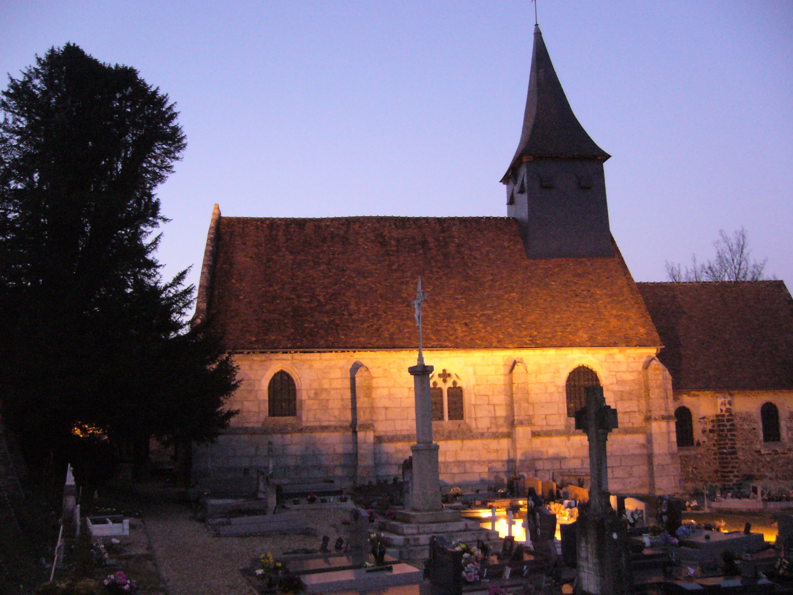 Parrish Church at La Ferrière-Saint-Hilaire with Old Yew